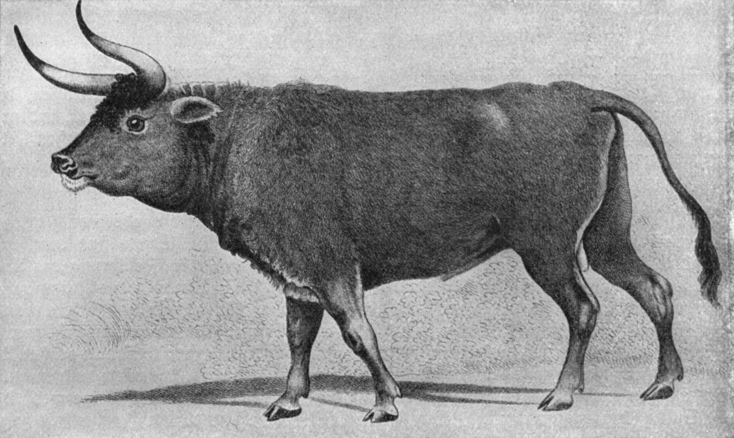 Painting thought to either depict an aurochs, a cattle/aurochs cross, or simply an aurochs like cattle breed.[1] This painting is a copy of the original that was present at a merchant in Augsburg in the 19th century. The original probably dates from the 16th century. It is not known if the original as well the copy still exist somewhere (Van Vuure, 2003).